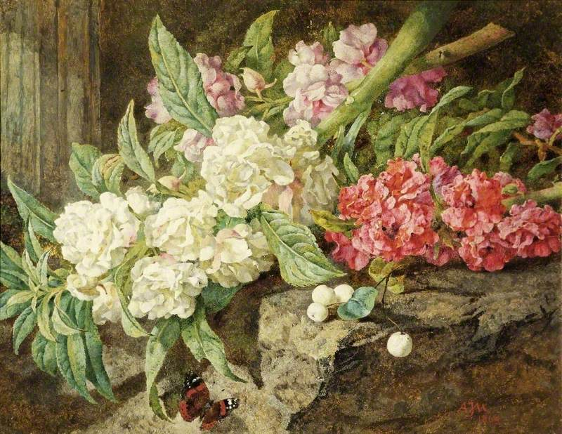 Annie Feray Mutrie Flower Study with a Butterfly; Russell-Cotes Art Gallery & Museum; guess at 1870